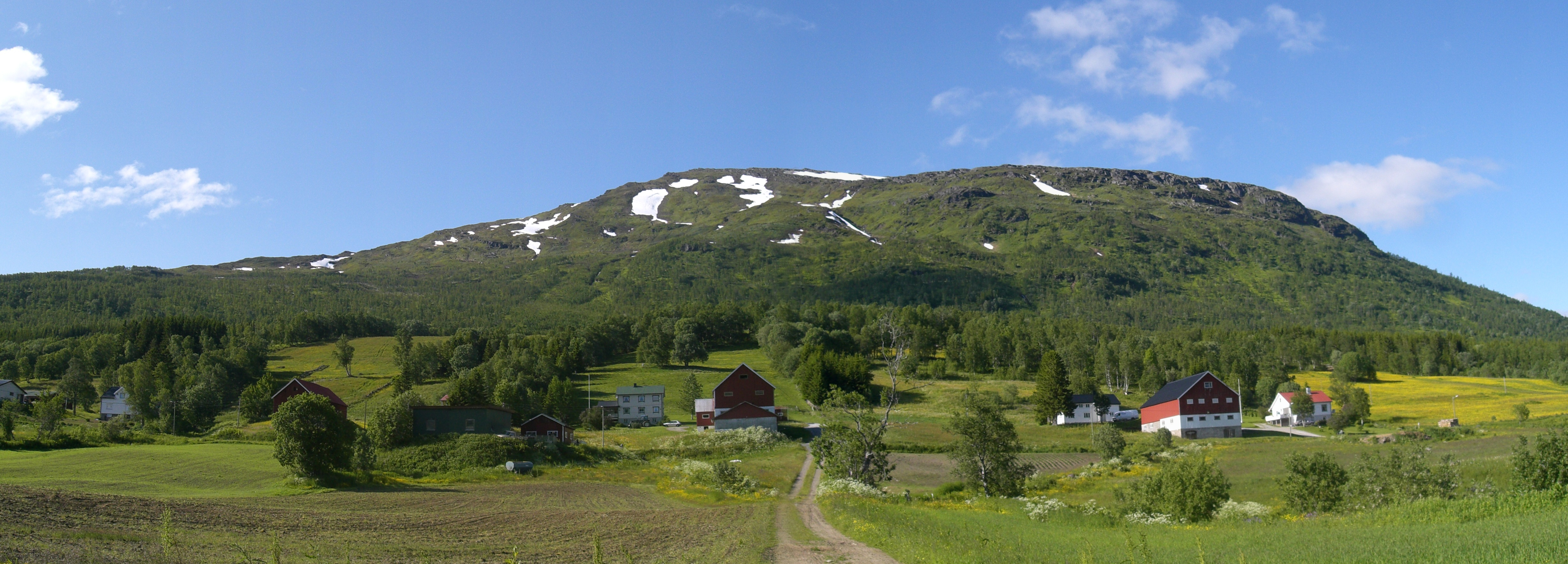 Fagerfjeliet mountain. Troms, Norway